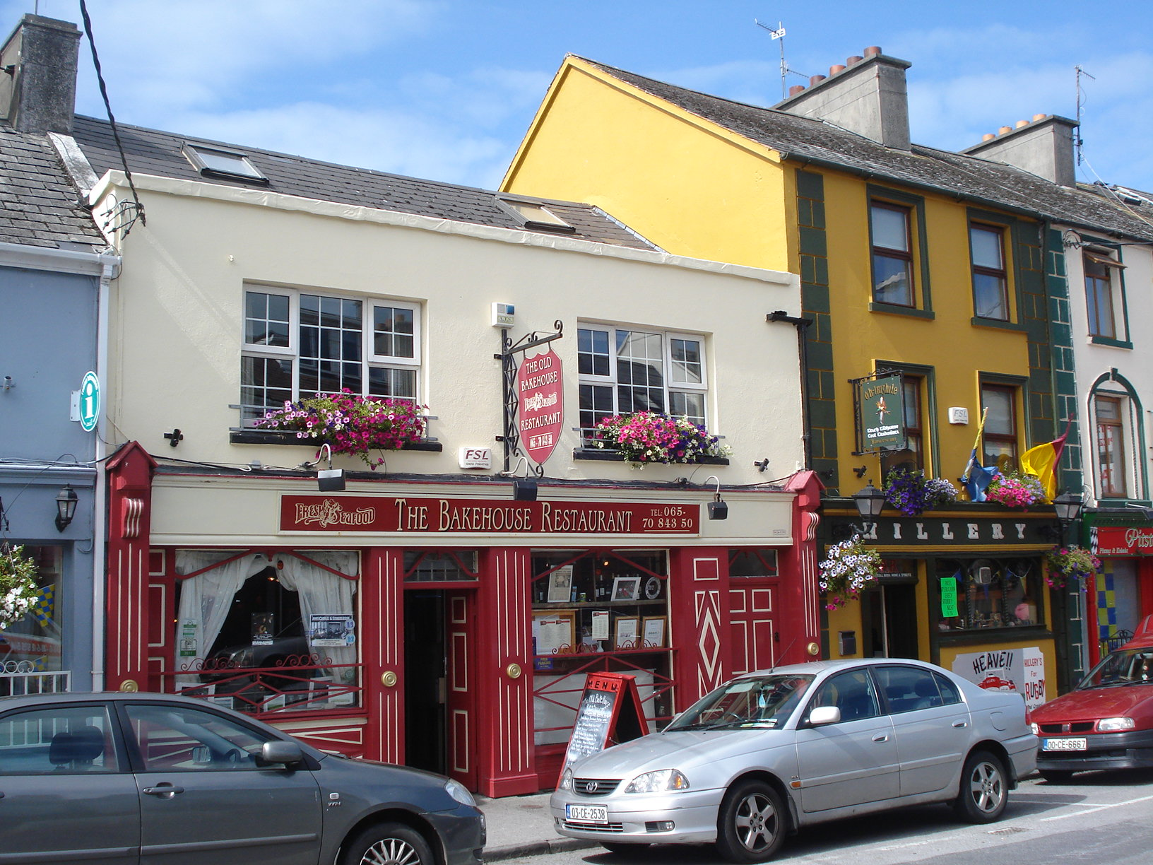 Colourful shops in Milltown Malbay